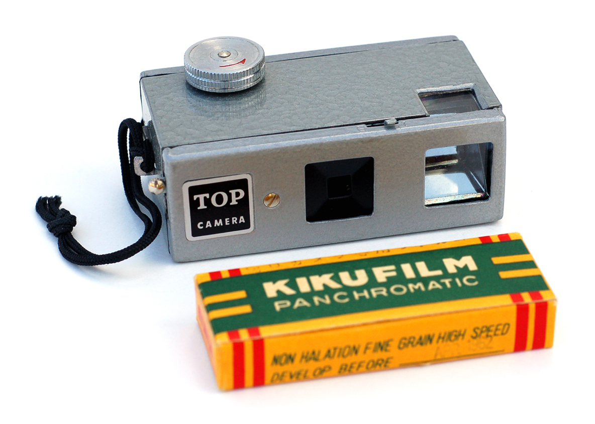 This is a Japanese subminiature camera, made c1965 by Maruso Trading Company. This example has "instant" and "bulb" shutter speeds and a dual finder (eye-level and reflex). There is another version with only the eye-level finder and a single-speed shutter. Believe it or not, this camera is made of bakelite, with a metal front and back. They applied a hammertone enamel finish to the whole thing, to make it look as though it's an all-metal camera. The box of film shown here is barely over two inches long, but holds six rolls of film. It says, "Develop before Apr. 1962", which is funny since the camera wasn't even made until three years later.